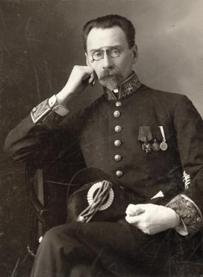 Alexey Bakhrushun